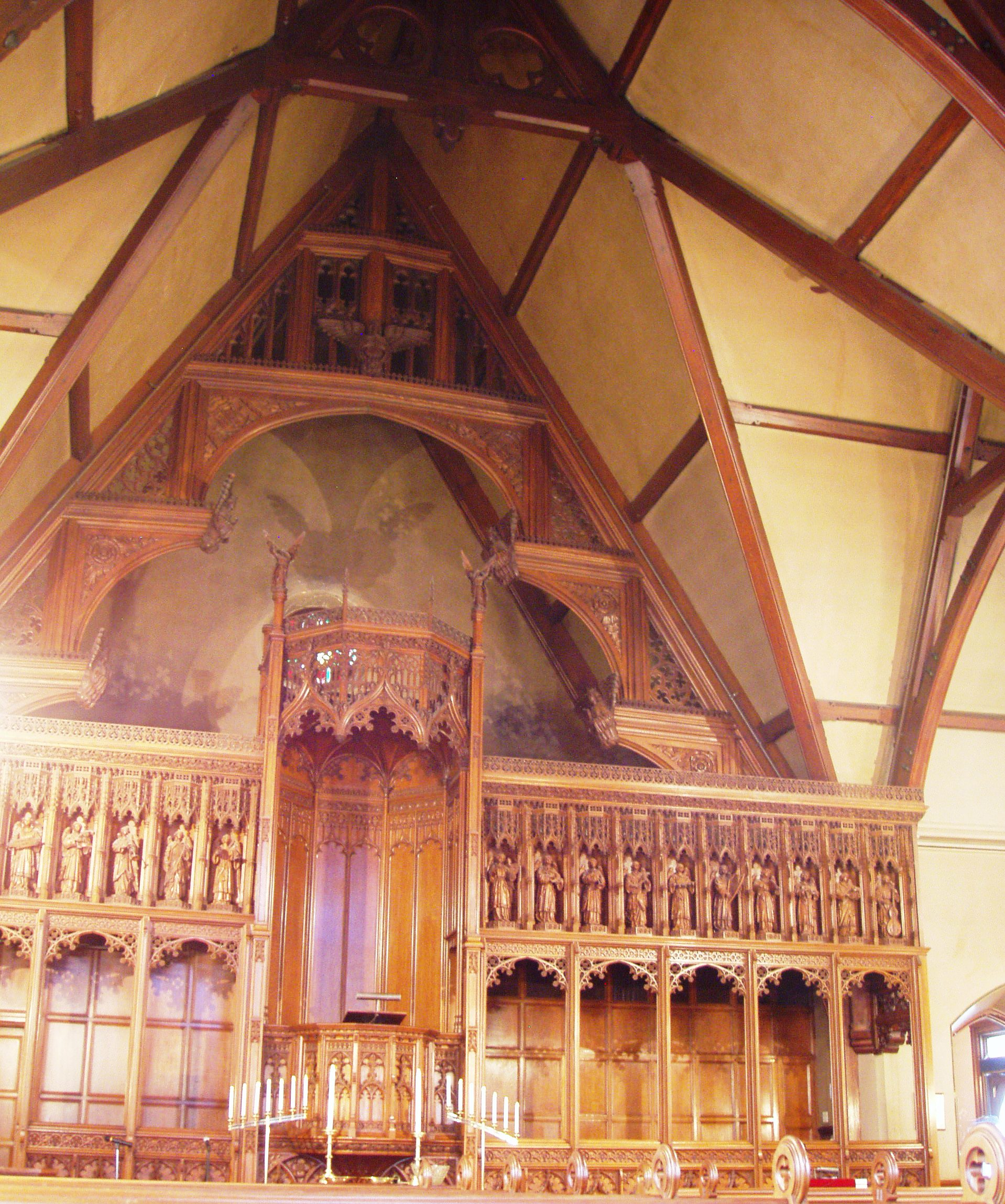 Unity Church, North Easton, Massachusetts, USA. Interior view. Pulpit designed by Henry Vaughan; woodcarvings by Johannes Kirchmayer.